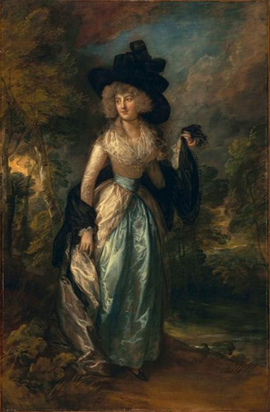 Juliana Barbara Howard (1769-1833) was daughter of Henry Howard of Glossop and Juliana Molyneux, and sister of Bernard Howard, 12th Duke of Norfolk, in 1788 married Robert Petre, 9th Baron Petre